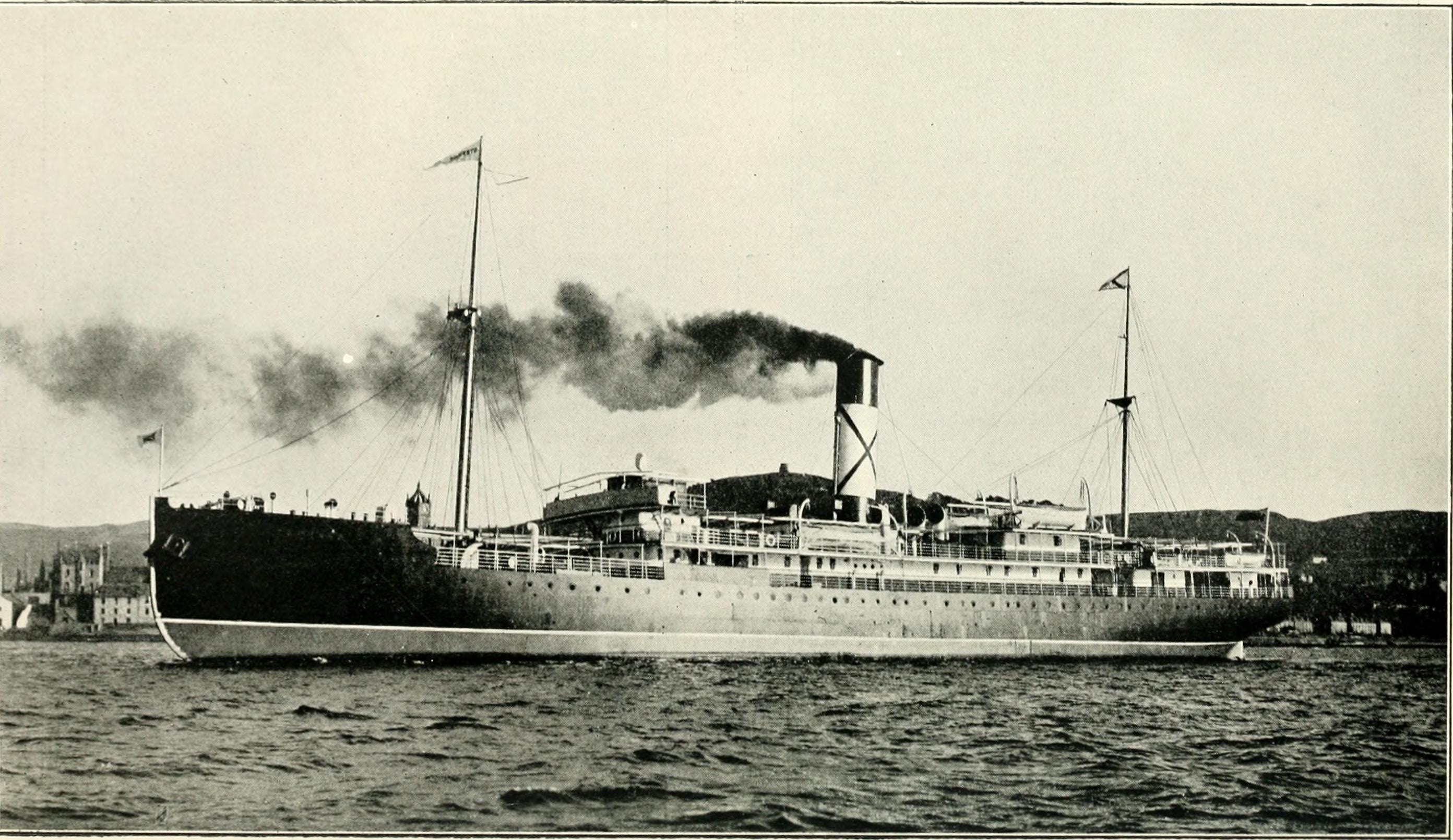 SS Stephano of the Bowring's Red Cross Line Title: Newfoundland in 1911, being the coronation year of King George V. and the opening of the second decade of the twentieth century Year: 1911 (1910s) Authors: McGrath, P. T. (Patrick Thomas), b. 1868 Subjects: Newfoundland and Labrador Publisher: London : Whitehead, Morris & Co., Ltd. Text Appearing Before Image: Photo.) Leading Tickles. (Honoicnt;. Text Appearing After Image: 257 Some of the Principal Imports for the Past Five Years, in which Britain, Canada and the United States can compete on fairly equal terms. Articles. 1905-06. 1906-07. 1907-08 1908-09 1909-10 Dollars. Dollars. Dollars Dollars Dollars Total Imports of all Arti- cles (including Specie) 10,414,274 10,426,040 11,576,111 11,402,337 12,799,696 Coal 526,927 565,208 648,391 605,997 691,734 Leather and Leatherware 332,637 352 235 346,562 347,338 421,641 Dry Goods 331,177 376,462 368,989 388,716 432,036 Cotton Fabrics 319,440 262,250 252,688 342,622 323,935 Hardware 305,686 300,207 293,585 256,242 347,380 Small wares 226,397 232,101 211,155 216,766 249,742 Hemp Yarn 225,029 211,835 251,715 158,685 91,411 Eeadymades 209,360 206,831 183,518 181,155 215,293 Tweeds 179,786 162,763 133,968 138,674 160,355 Womens Dress Goods ... 146.082 129,767 123,744 108,305 127,853 Salt 136,693 101,737 142,865 111,388 105,835 Machinery & Locomotives 363,073 368.849 400,326 336,624 516,404 Groceries 127,530 13